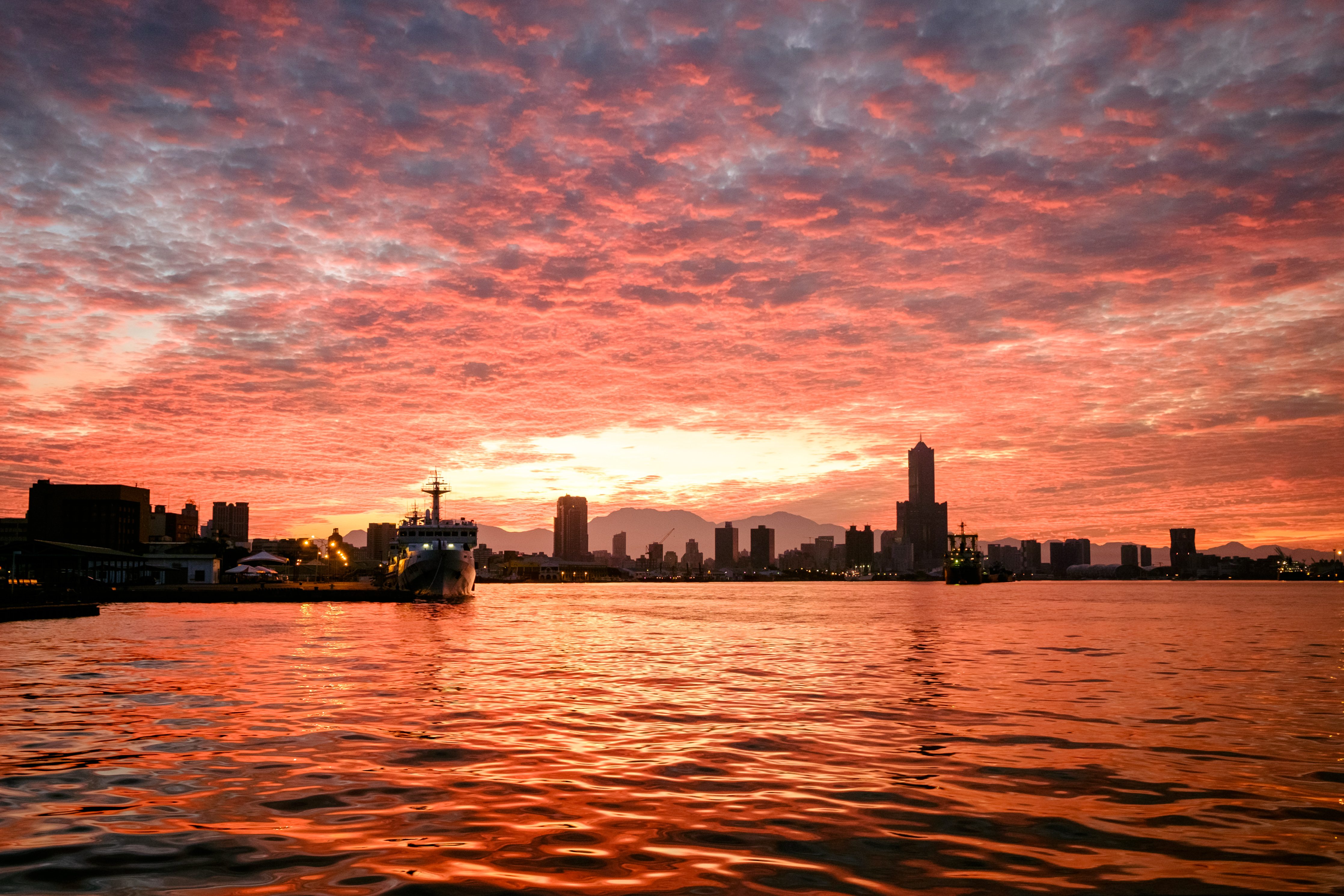 Skyline of Kaohsiung harbor, Taiwan during sunrise in 2016